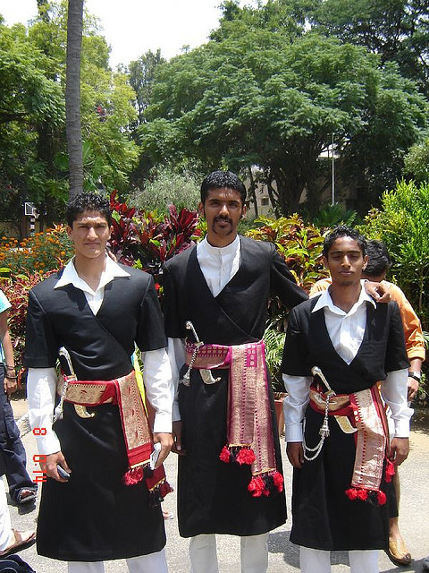 Coorgi guys in their traditional gear